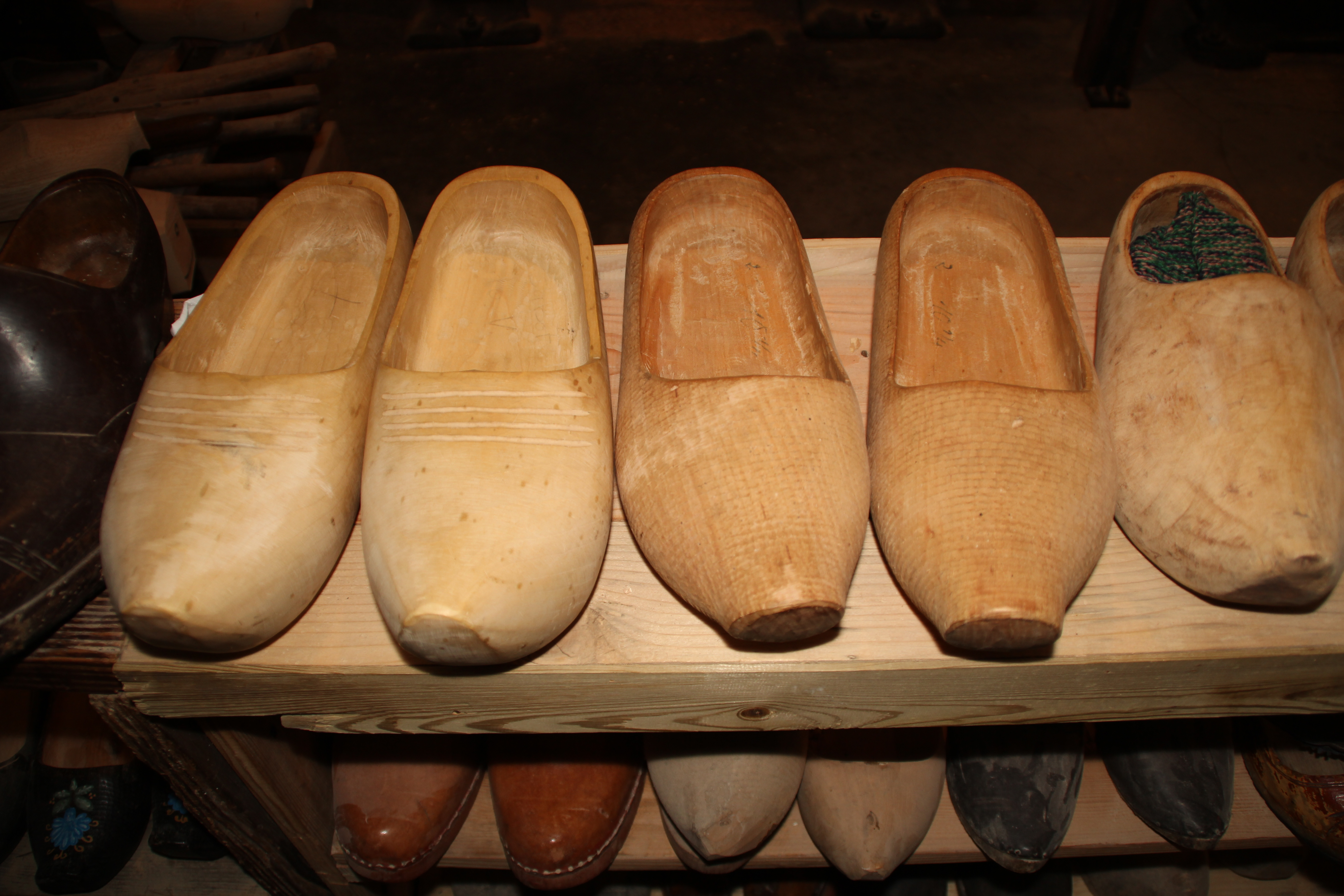 Museum for wood craft and heritage in Labaroche, France.